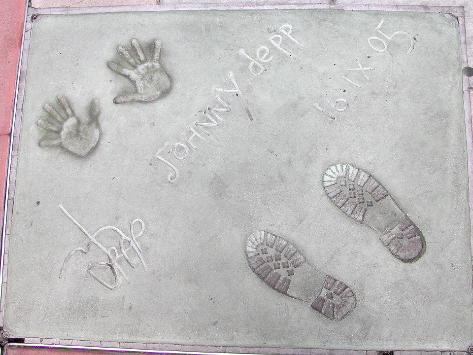 Johnny Depp's footprints at the Grauman's Chinese Theatre, Los Angeles (California)